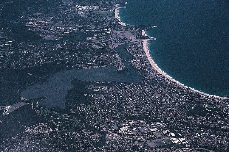 This mid bay barrier in Narrabeen, a suburb of Sydney (Australia), has blocked what used to be a bay to form a lagoon.